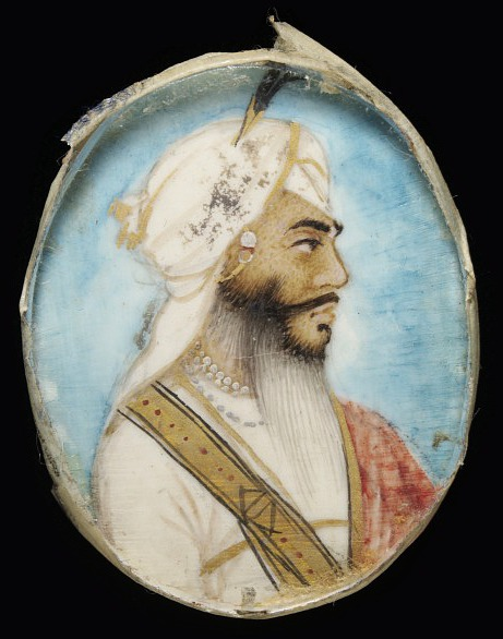 Tej Singh was appointed commander Chief of the Sikh army, the Anglo Sikh war of 1845-46.